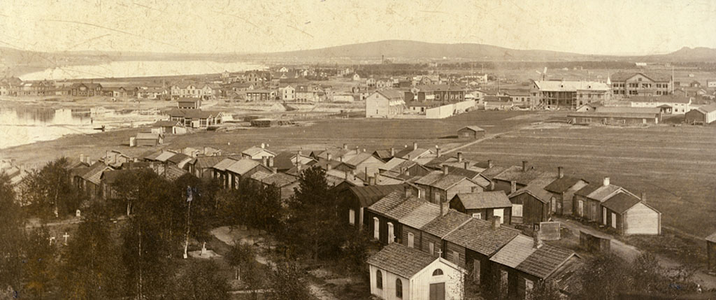 View over Boden, which had its town charter in 1919. Format: Albumen print